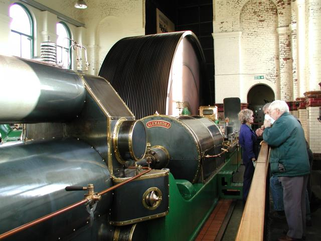 Ellenroad Mill engine. Situated in the Engine House visible from the M62 motorway, this engine used to power one of the last steam driven Lancashire spinning Mills. The mill itself has since been demolished, but the twin engines Victoria and Alexandra are preserved and run monthly for visitors. They form the largest surviving mill engine. Multiple ropes round the flywheel in the picture drove lineshafts on each floor of the mill which in turn powered the mill machinery.